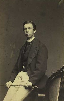 Gerner Wolff-Sneedorff (1850-1931), Danish estate owner